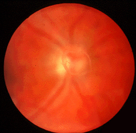 Photo showing floaters which are condensations within the normally transparent vitreous gel.